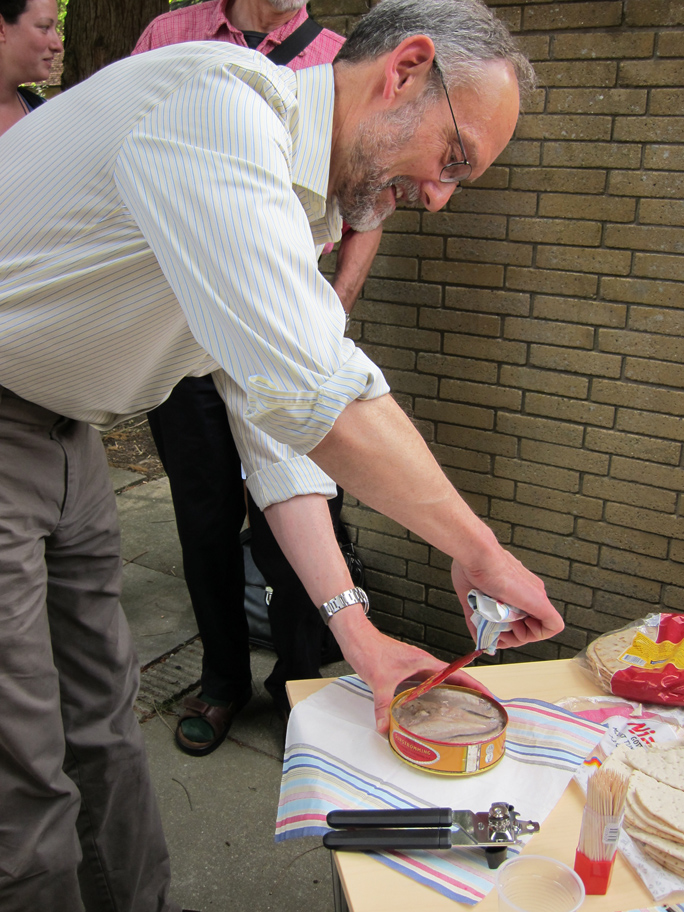 Oxford Symposium on Food & Cookery, 2010. Held at St Catherine's college. Harold McGee tasting surstromming, Sweden’s famous fermented herrings.